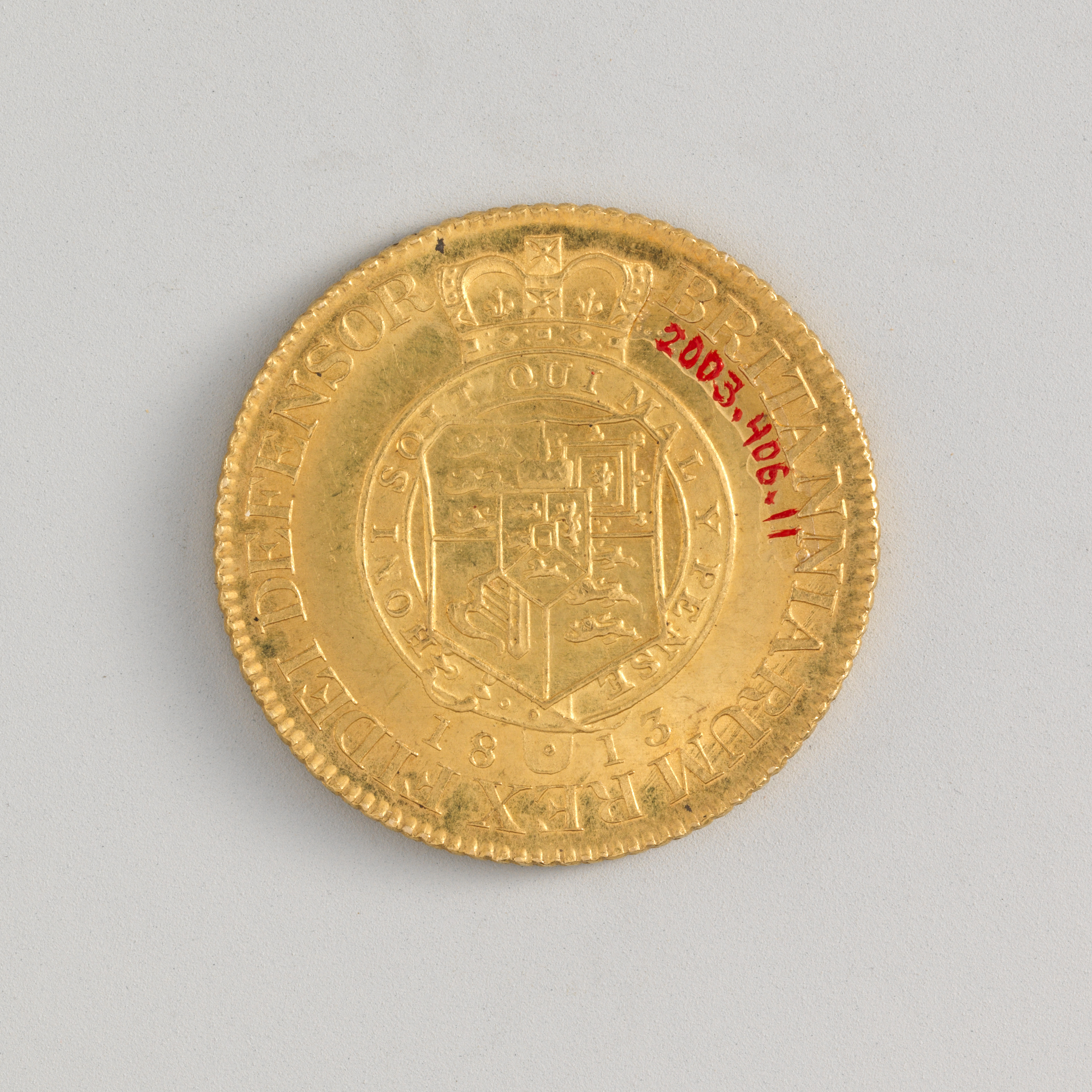 British; Guinea; Coins